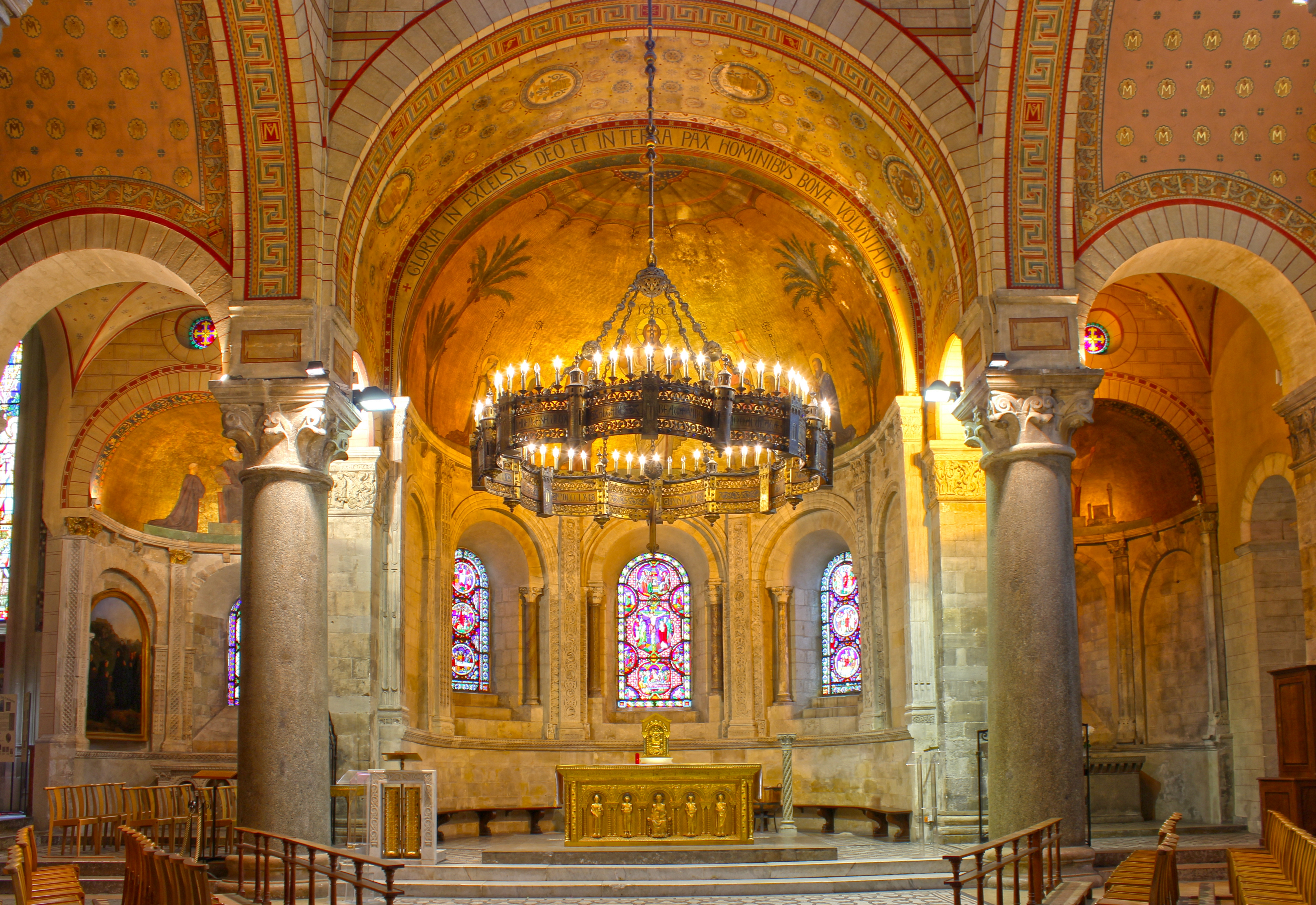 HDR view of the interior of Basilique Saint-Martin d'Ainay (Lyon).